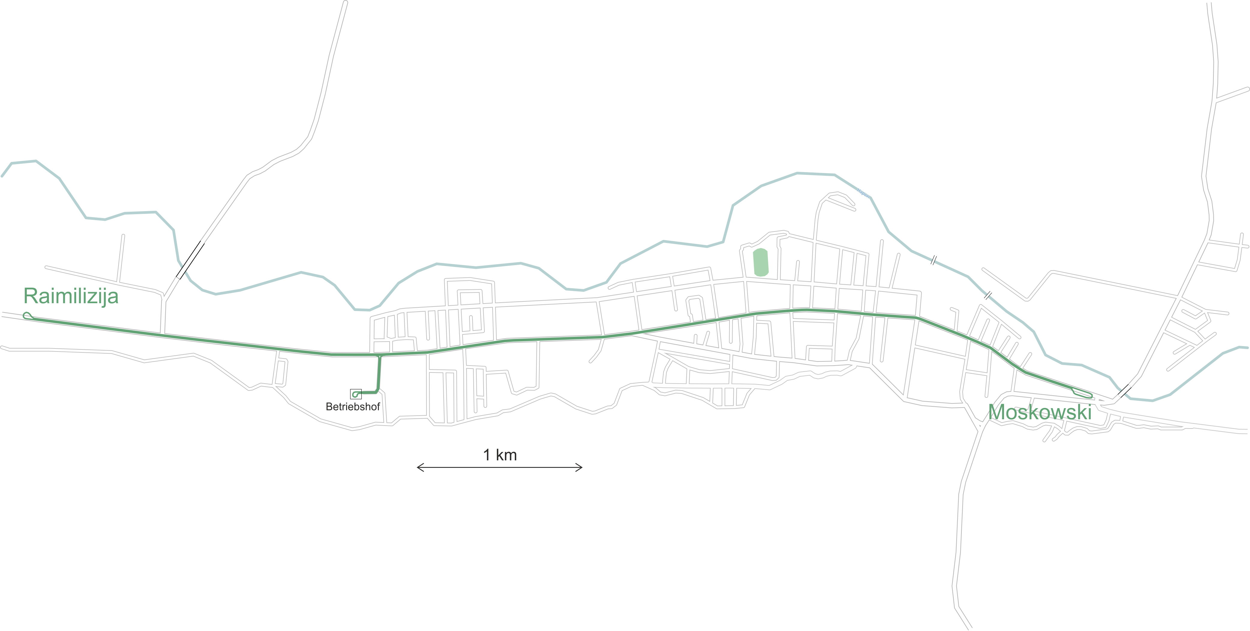 This map may be incomplete, and may contain errors. Don't rely solely on it for navigation.